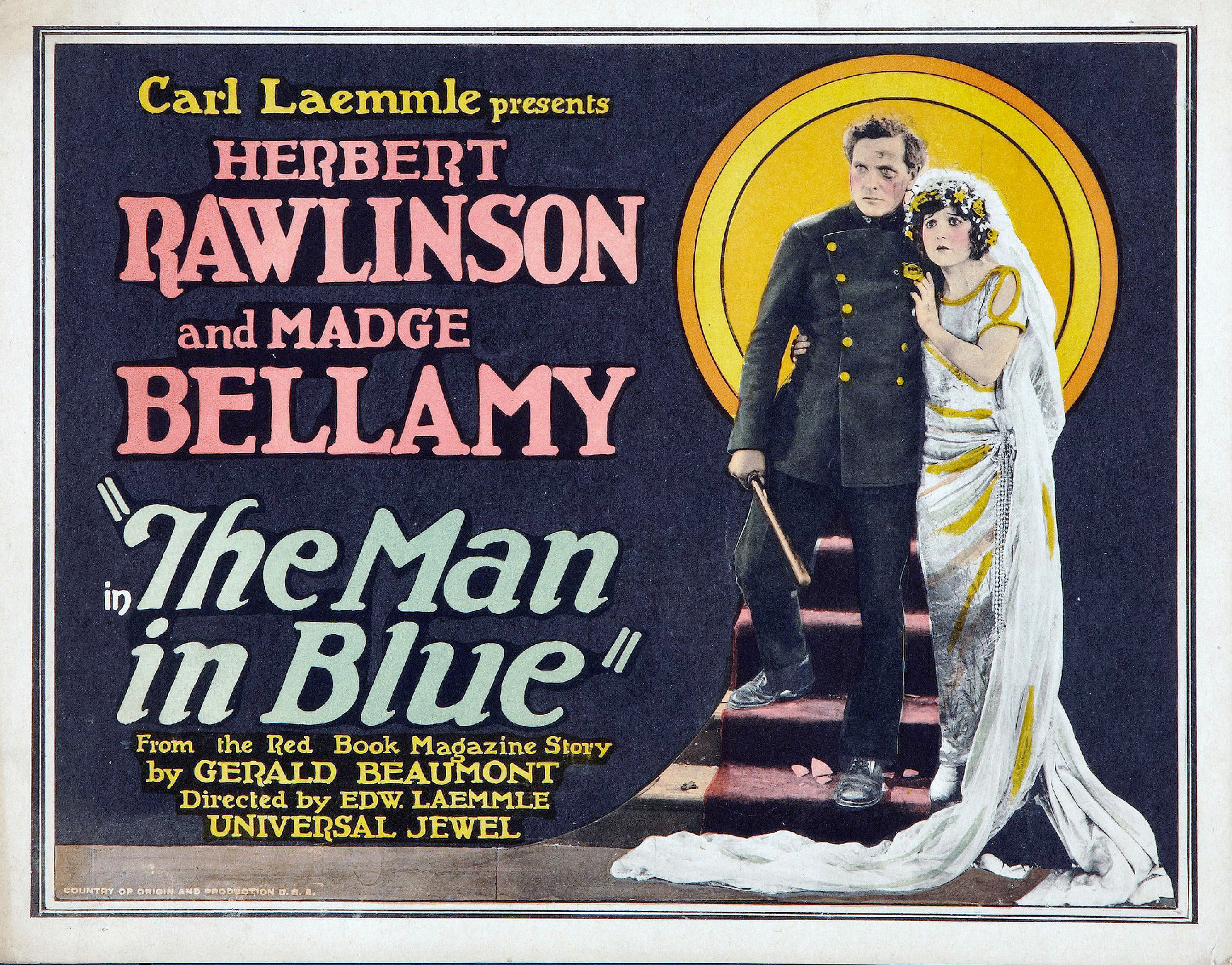 Lobby card for the American drama film The Man in Blue (1925). There are no copyright marks. At bottom left (at border) is Country of origin and production USA.